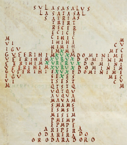 Cross poem "De Signaculo Sanctae Crucis" of 6th century roman author Venantius Fortunatus from the Codex 196, page 40, of the monastery library at Sankt Gallen, Switzerland